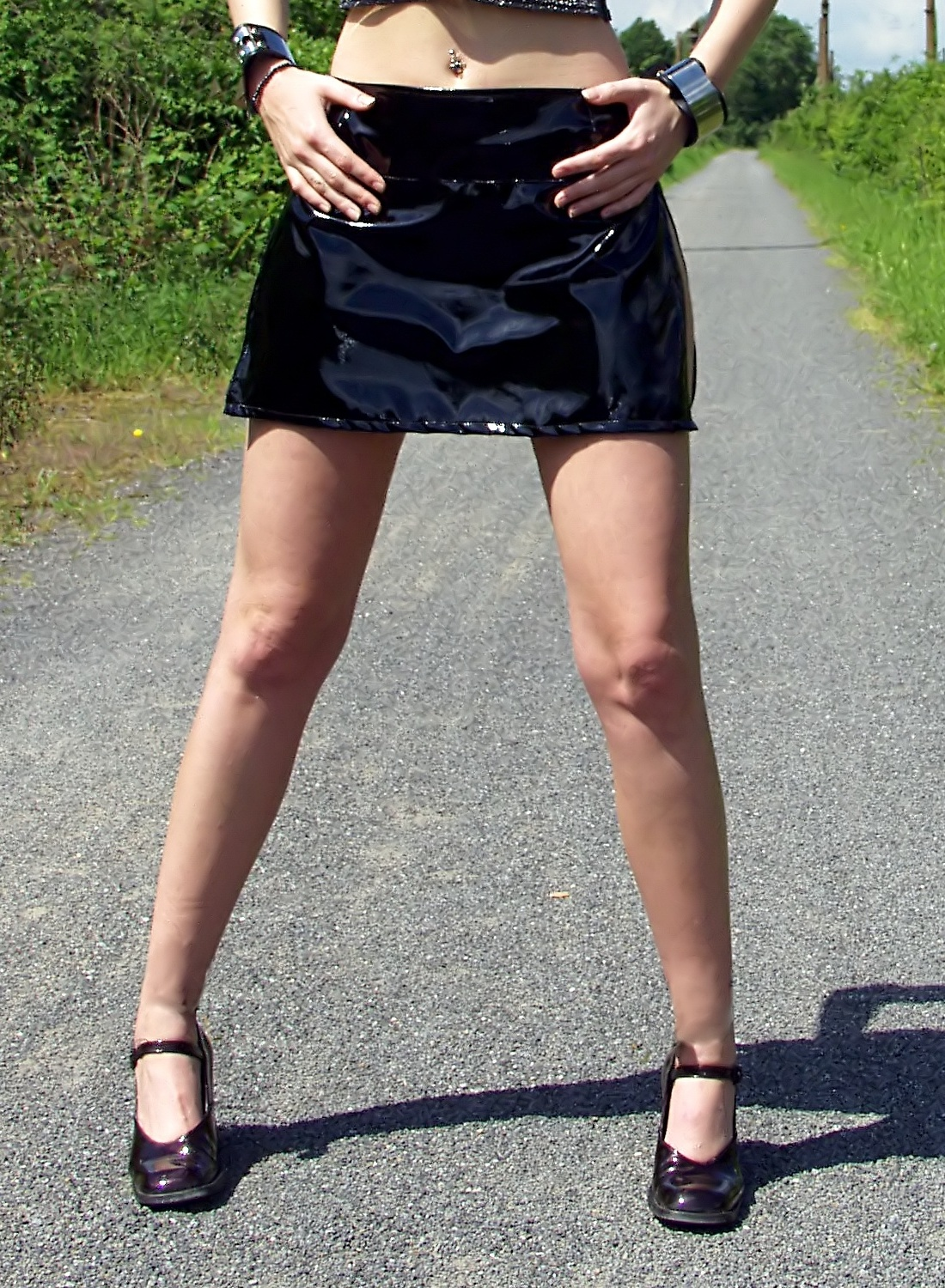 Fotomodel in a miniskirt at Landschaftspark Duisburg-Nord